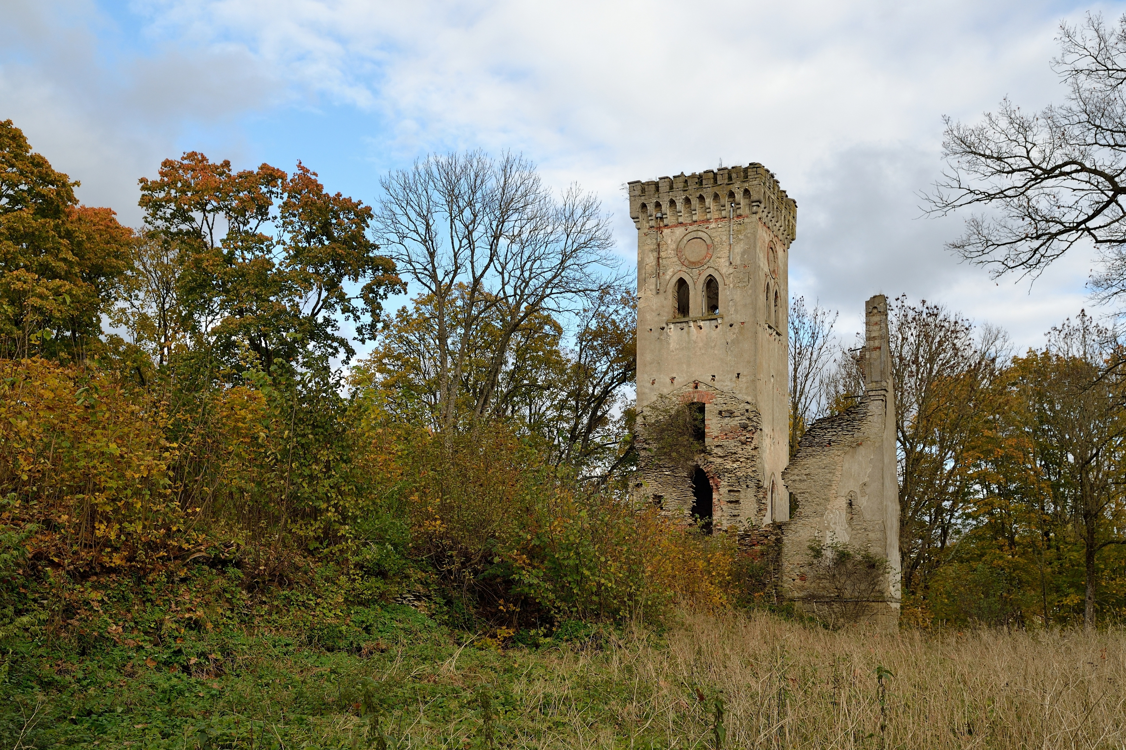 Ruins of Lehtse manor main building